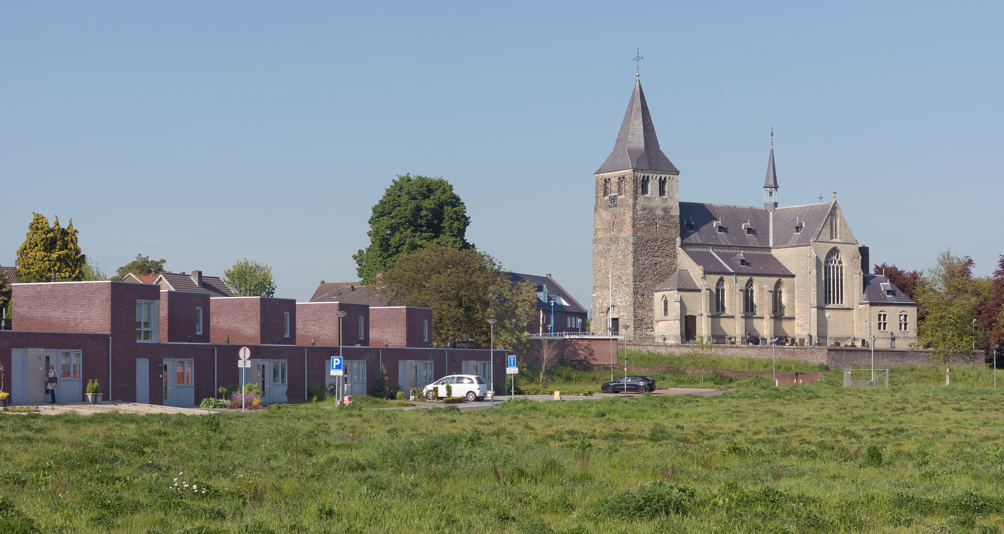 Heel, church: de Sint-Stephanuskerk